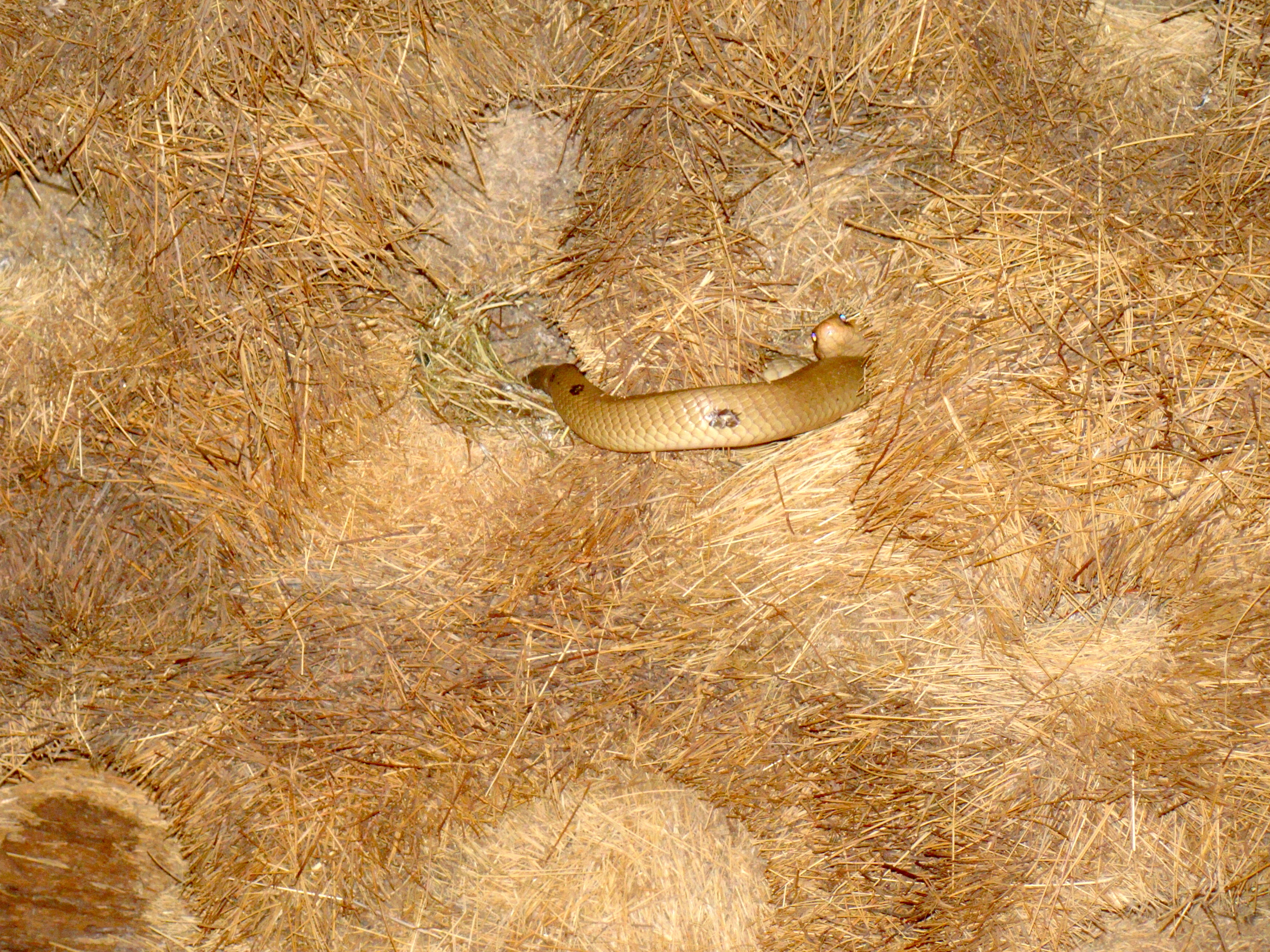 Cape cobra (Simplon, southern Namibia)